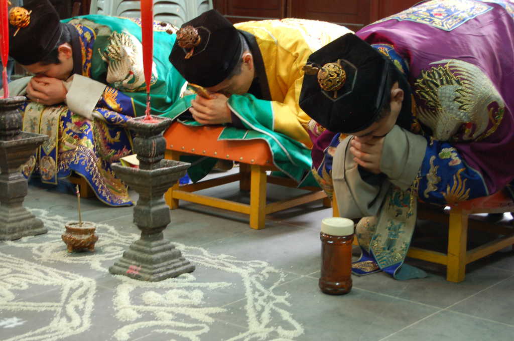 Taoist priests performing a rite at the Baiyun (White Cloud) Temple of Shanghai.